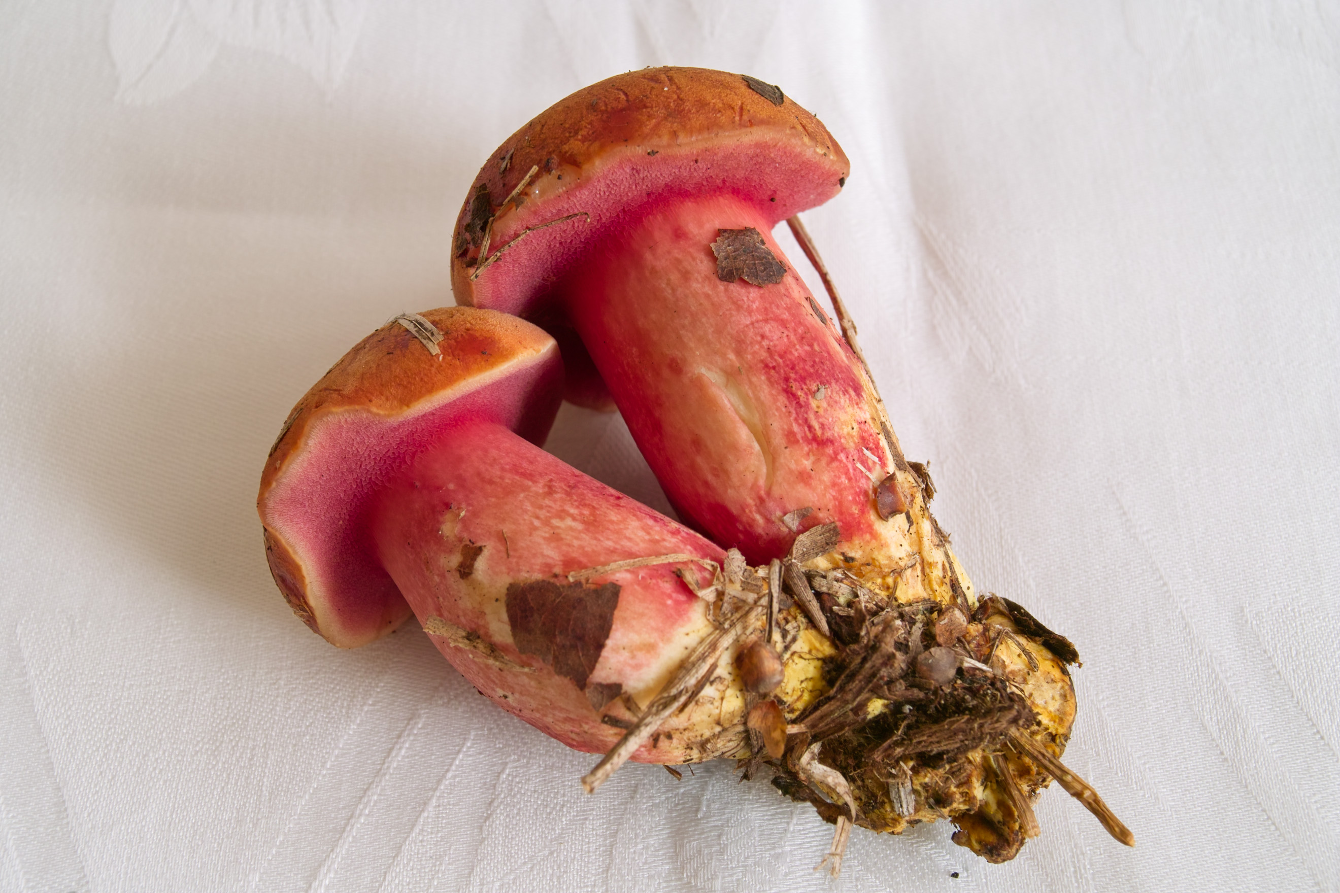 Rubinoboletus rubinus